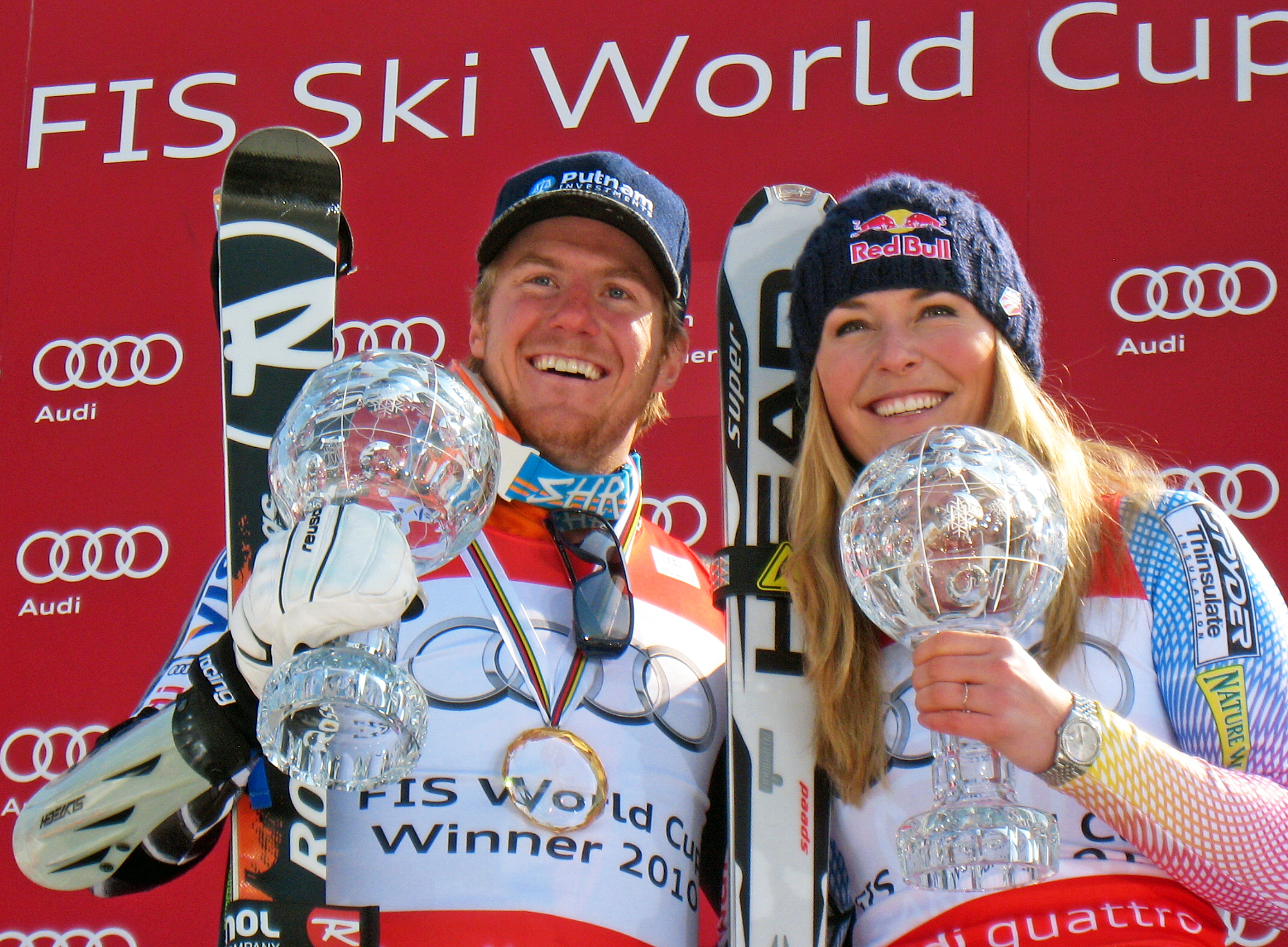 U.S. Ski Team athletes Ted Ligety and Lindsey Vonn show off their crystal globes at the Audi FIS World Cup Finals in Garmisch-Partenkirchen, Germany. Ligety won his second giant slalom title in three years, while Vonn took the downhill, super G and super combined titles, plus the Audi FIS World Cup overall title.